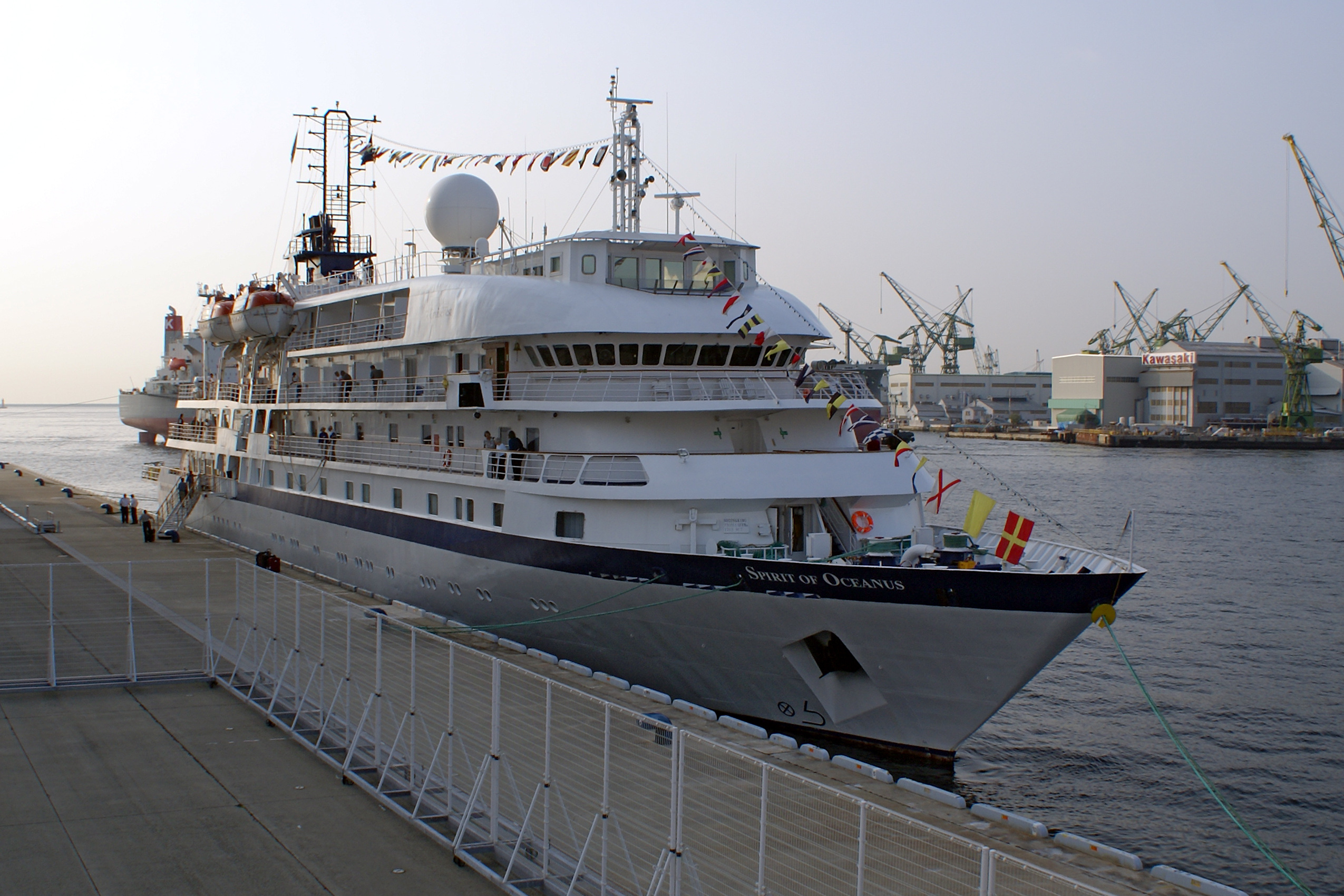 "Spirit of Oceanus" who anchors at "Nakatottei" of the Kobe harbor (Kobe, Hyogo, Japan)